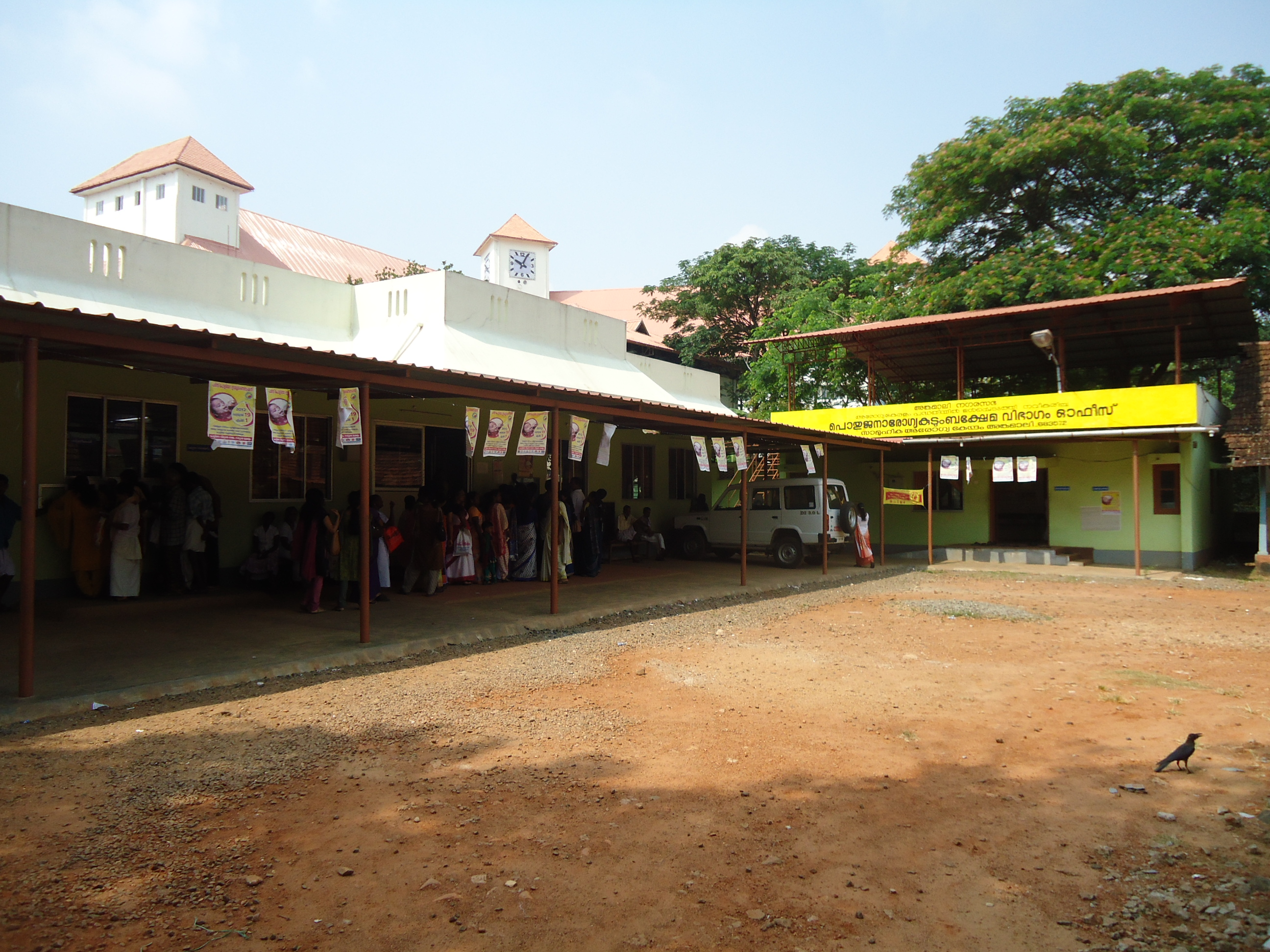 Community Health Center in Angamaly, Kerala